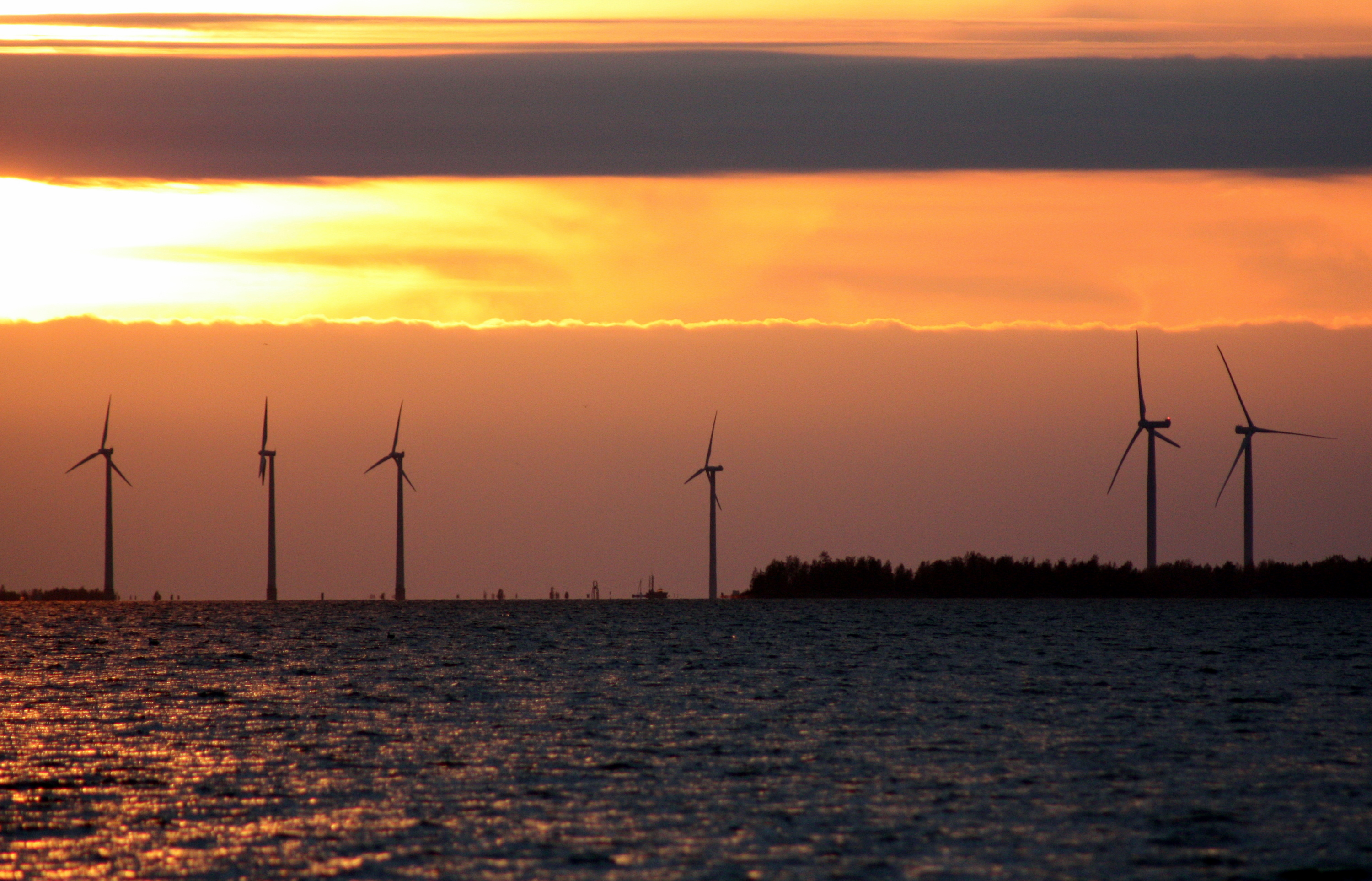 The wind farm of Riutunkari and Hailuoto seen from Hietasaari, Oulu.